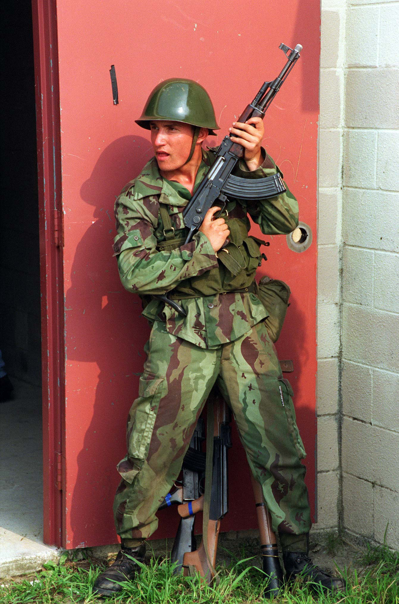 This Albanian soldier keeps an eye out for the 'enemy' during a Military Operations in Urban Terrain Situational Training Exercise at Camp Lejeune, N.C., on Aug. 17, 1996 as part of Cooperative Osprey '96. Cooperative Osprey '96 is a NATO sponsored exercise as part of the alliance's Partnership for Peace program. The aim of the exercise is to develop interoperability among the participating forces through practice in combined peacekeeping and humanitarian operations. Three NATO countries and 16 Partnership for Peace nations are taking part in the field training exercise.